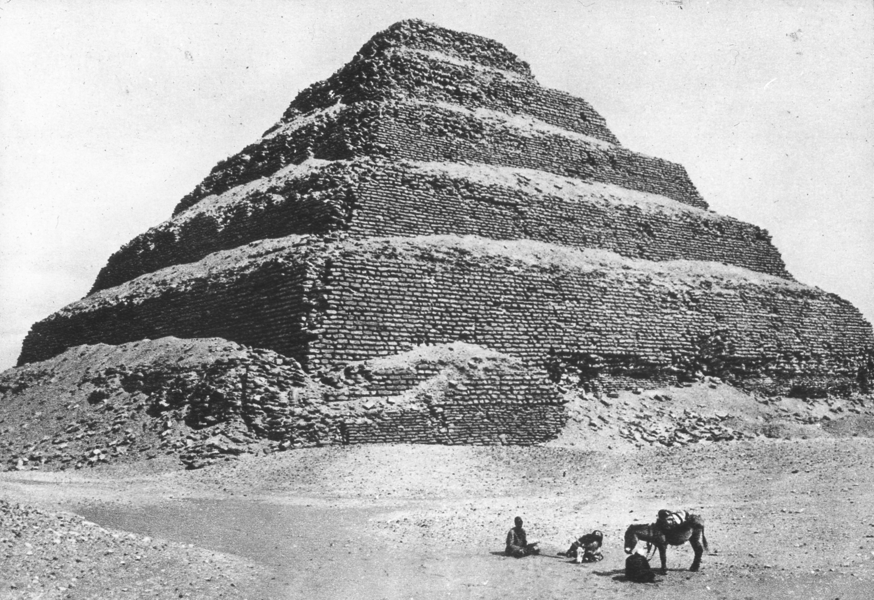 Lantern Slide Collection: Views, Objects: Egypt. Sakkara [selected images]. View 12: Egyptian - Old Kingdom. Step Pyramid of Zoser, Sakkara, 3rd Dyn., n.d., Property of the Brooklyn Museum. Brooklyn Museum Archives (S10.08 Sakkara, image 9638).